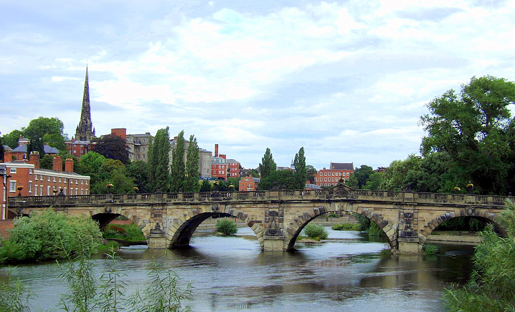 English Bridge, Shrewsbury. (Looking downstream - the town centre is on the left.)